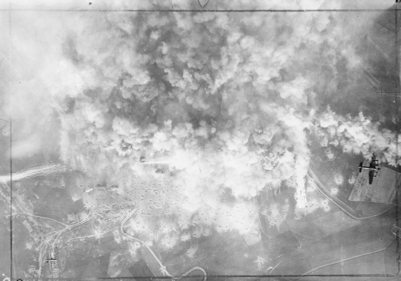 Royal Air Force Bomber Command, 1942-1945. Vertical aerial photograph showing Avro Lancasters flying over the smoke-covered target area during a daylight attack by 646 aircraft on German defensive positions four miles west of Calais, France.